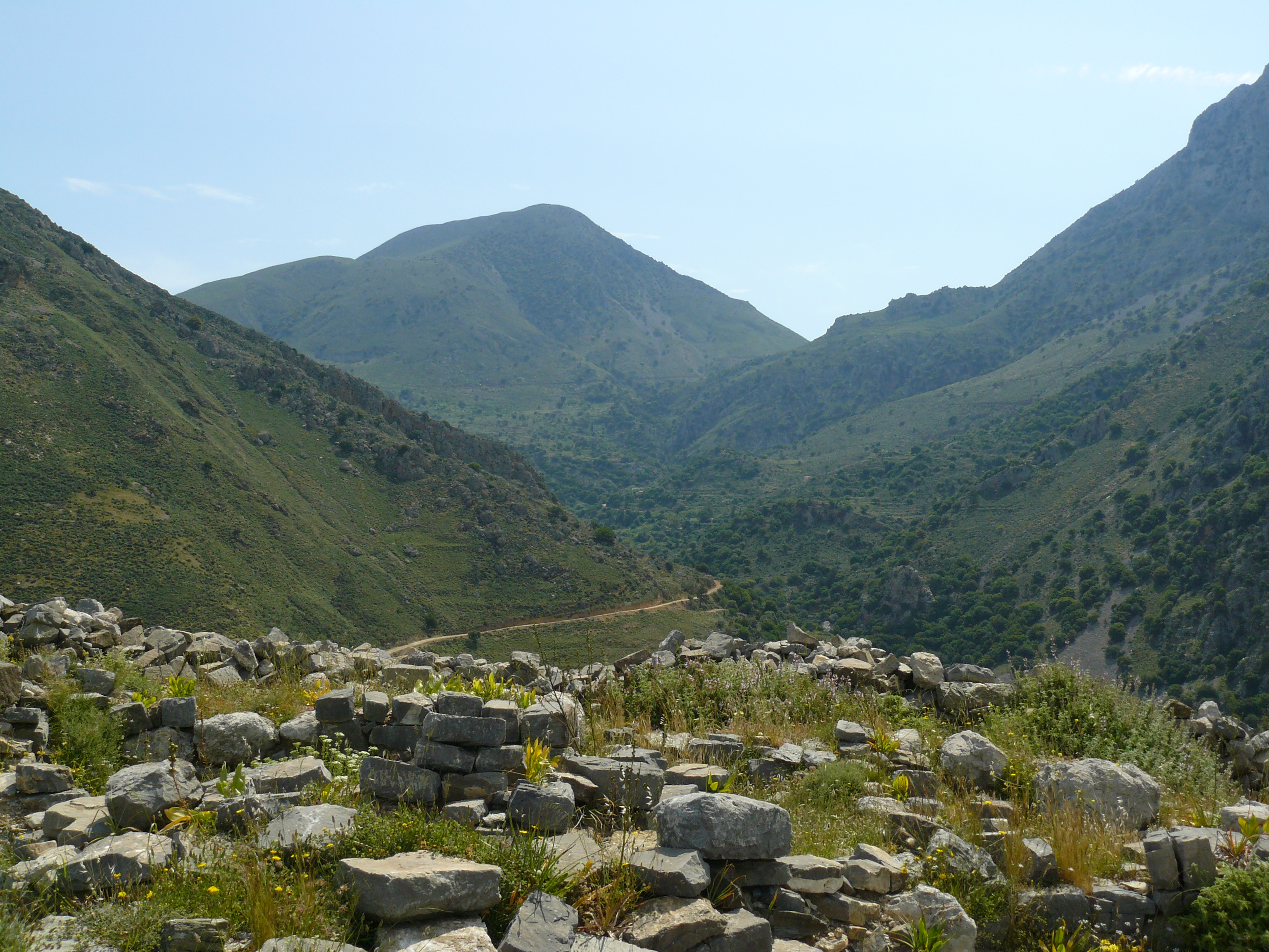 View from Azoria on the small village Melisses in Avgo valley near Kavousi, Lasithi, Crete. In the background the mountain Bembonas.